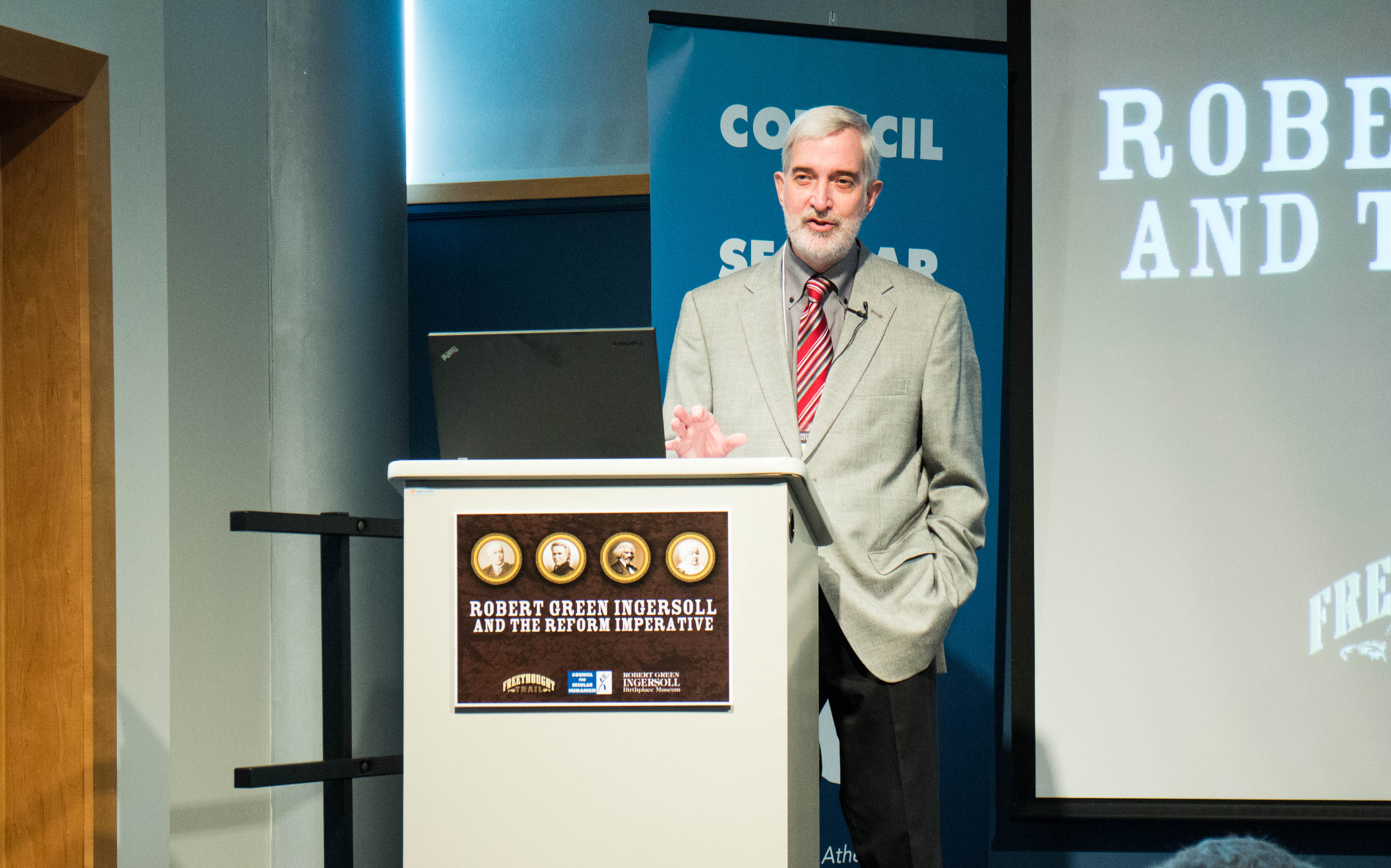 Council for Secular Humanism CEO Ronald A. Lindsay opens the conference “Robert Green Ingersoll and the Reform Imperative” at the Center for Inquiry, Amherst, New York, August 16, 2014. Photo by Monica Harmsen.